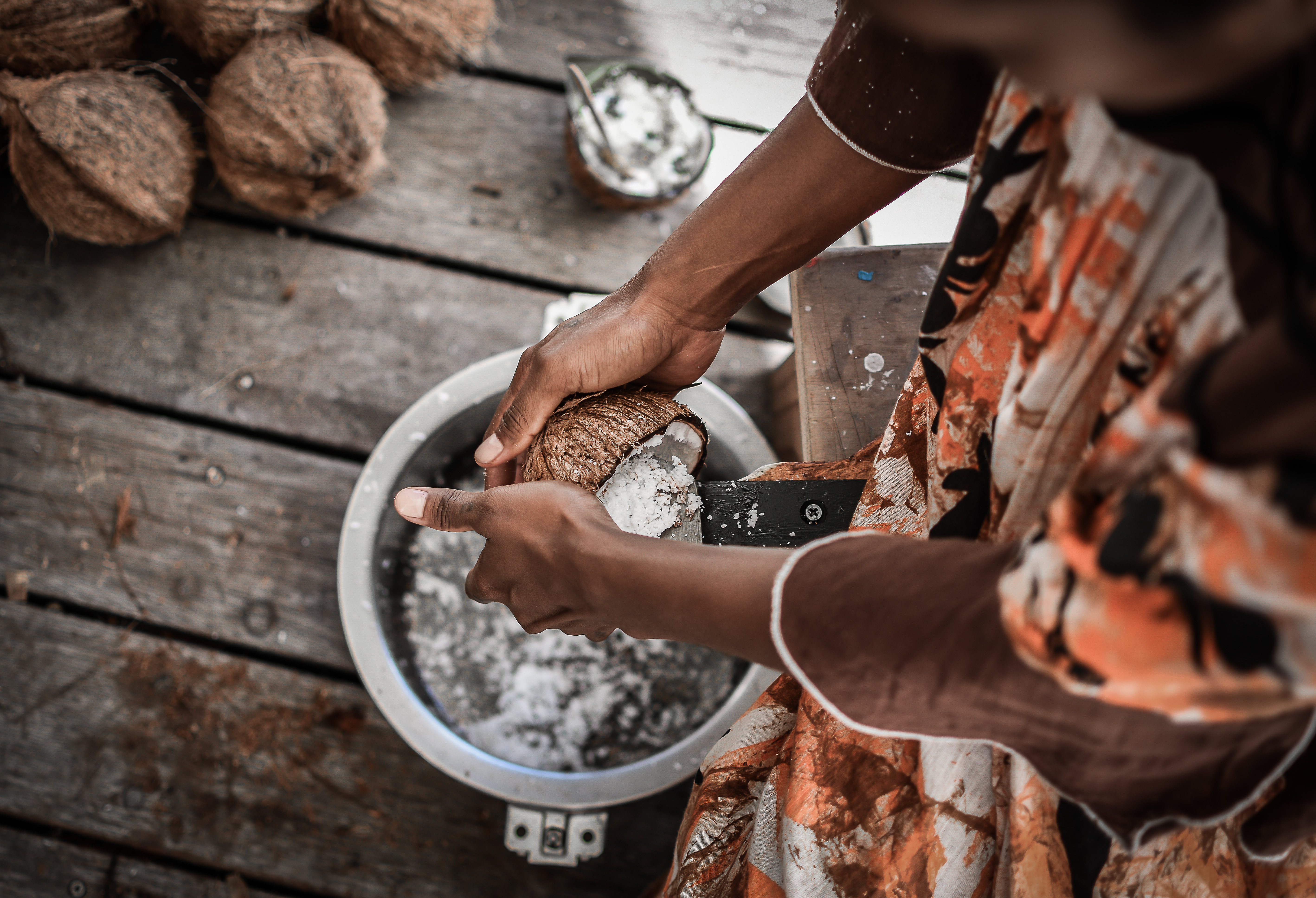 working coconut for making millk